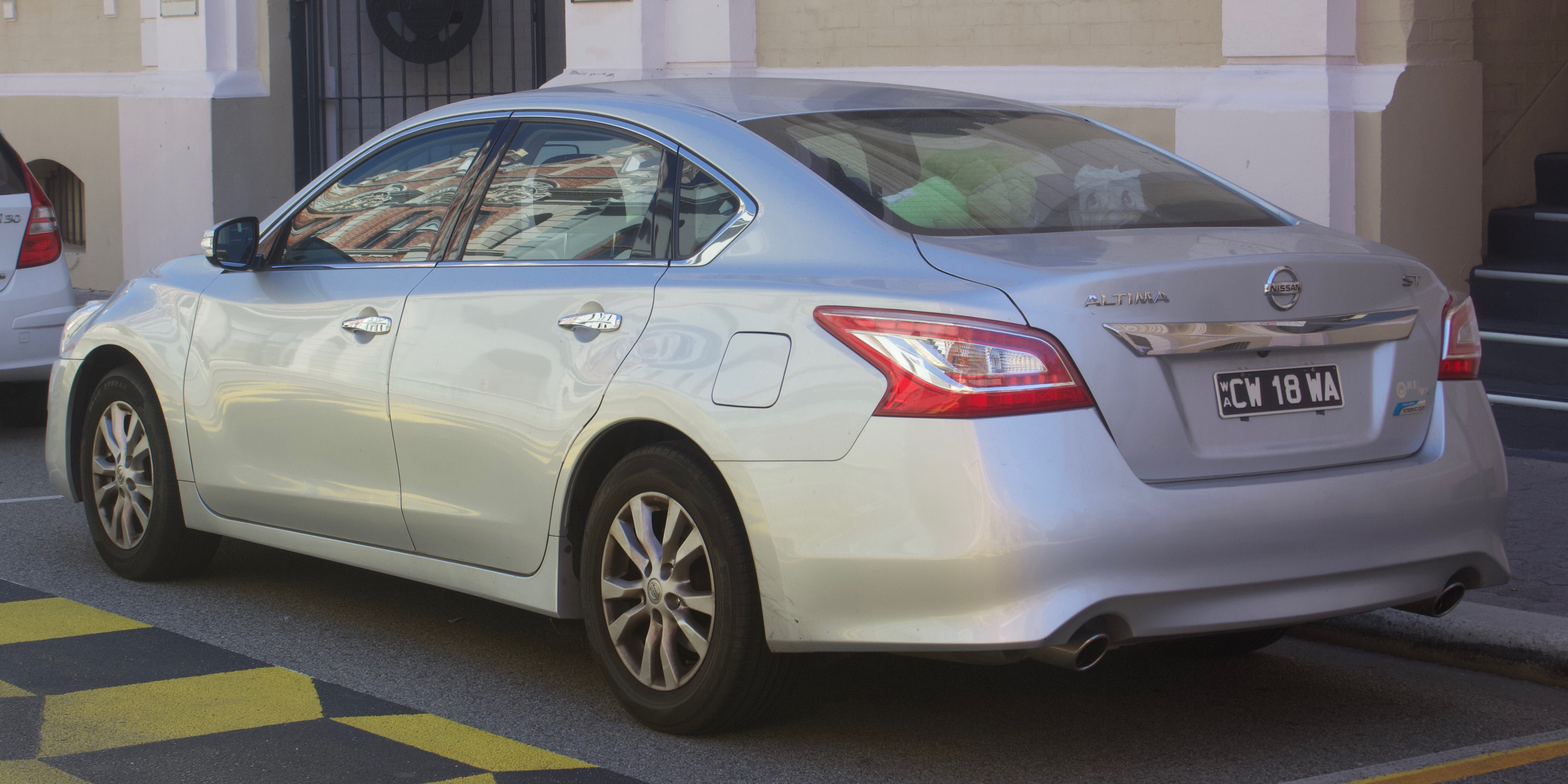 2013-2015 Nissan Altima (L33) ST sedan. Photographed in Fremantle, Western Australia, Australia.